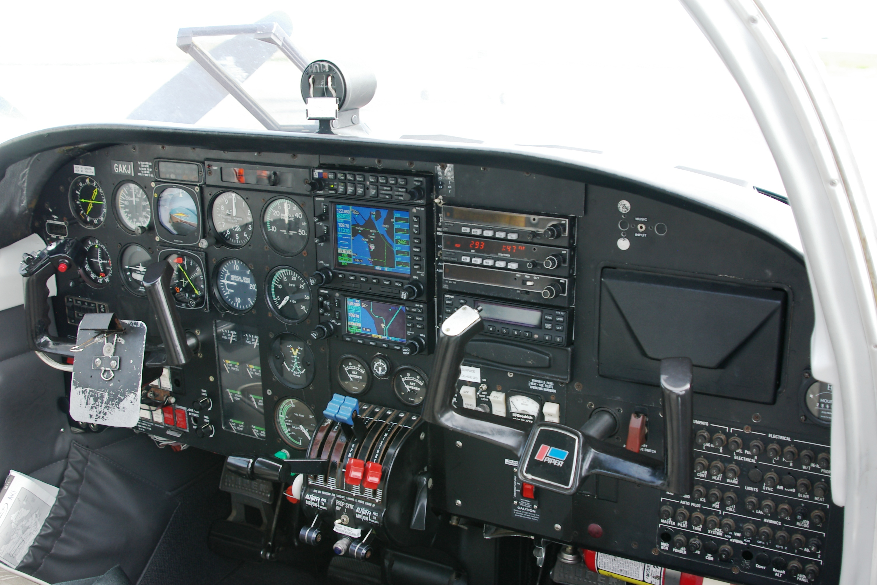 Piper Seneca III - instrument panel